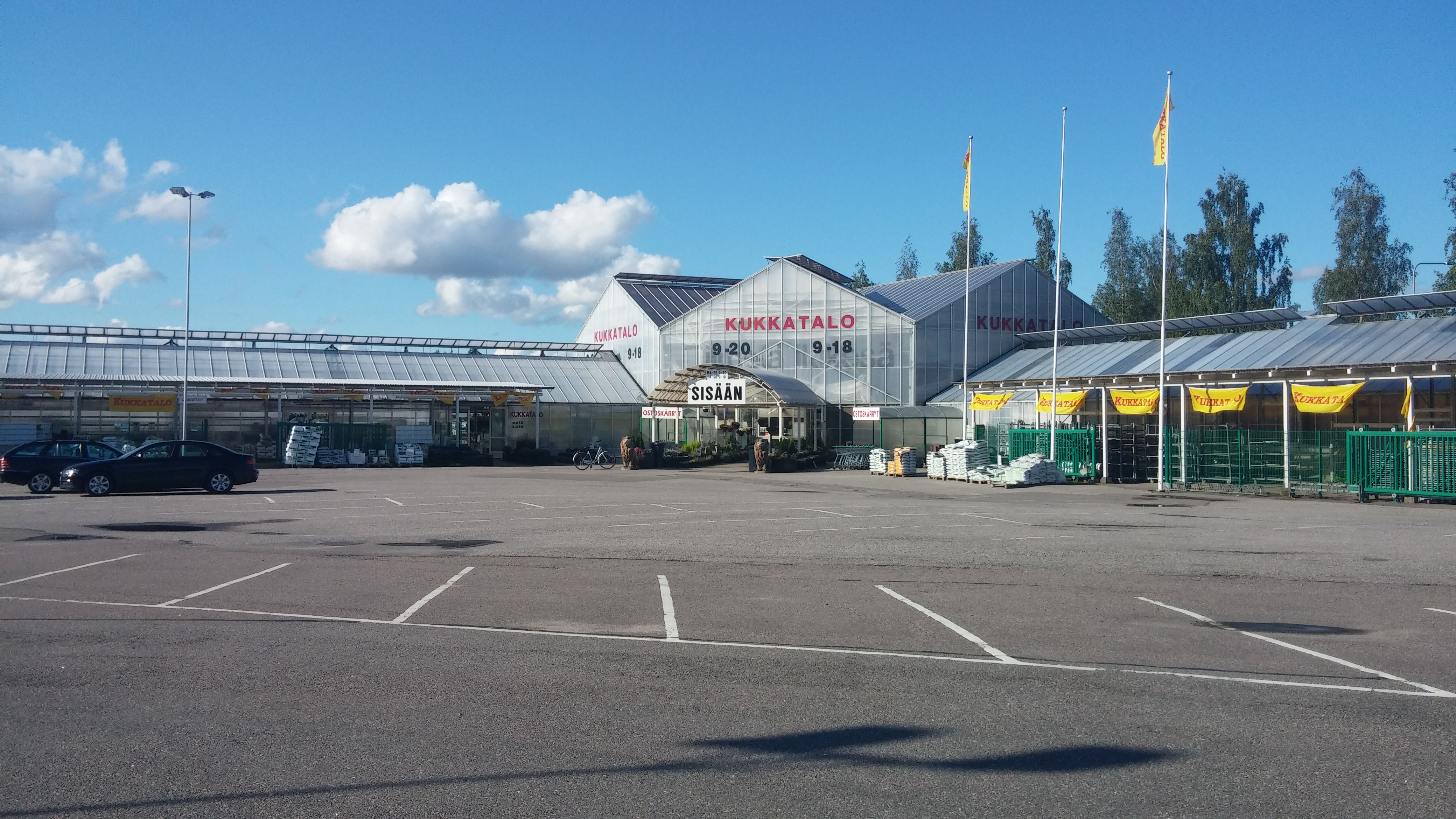 Pirilän Kukkatalo